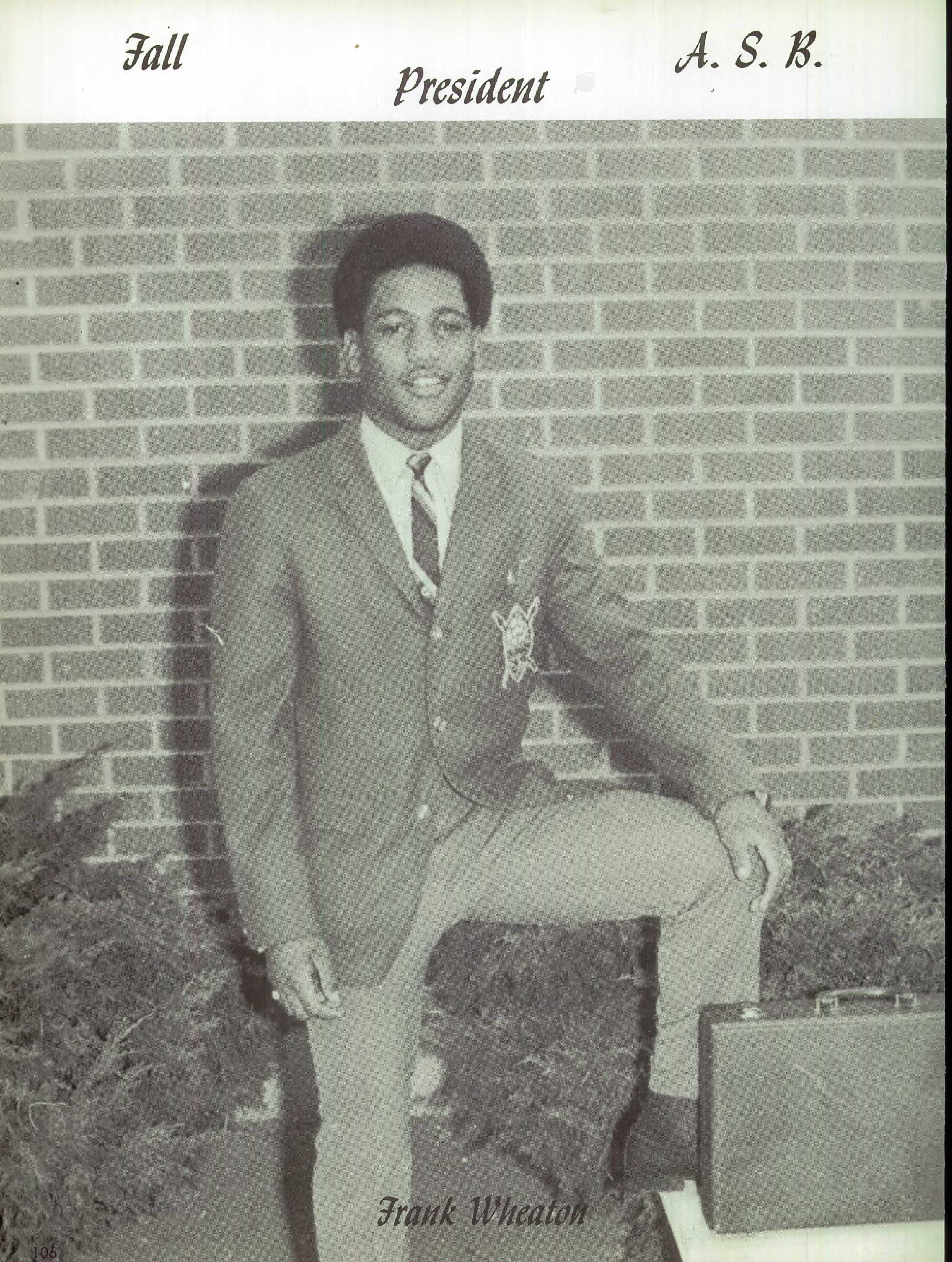 ASB President of Centennial High School, Compton, California (Fall 1968)